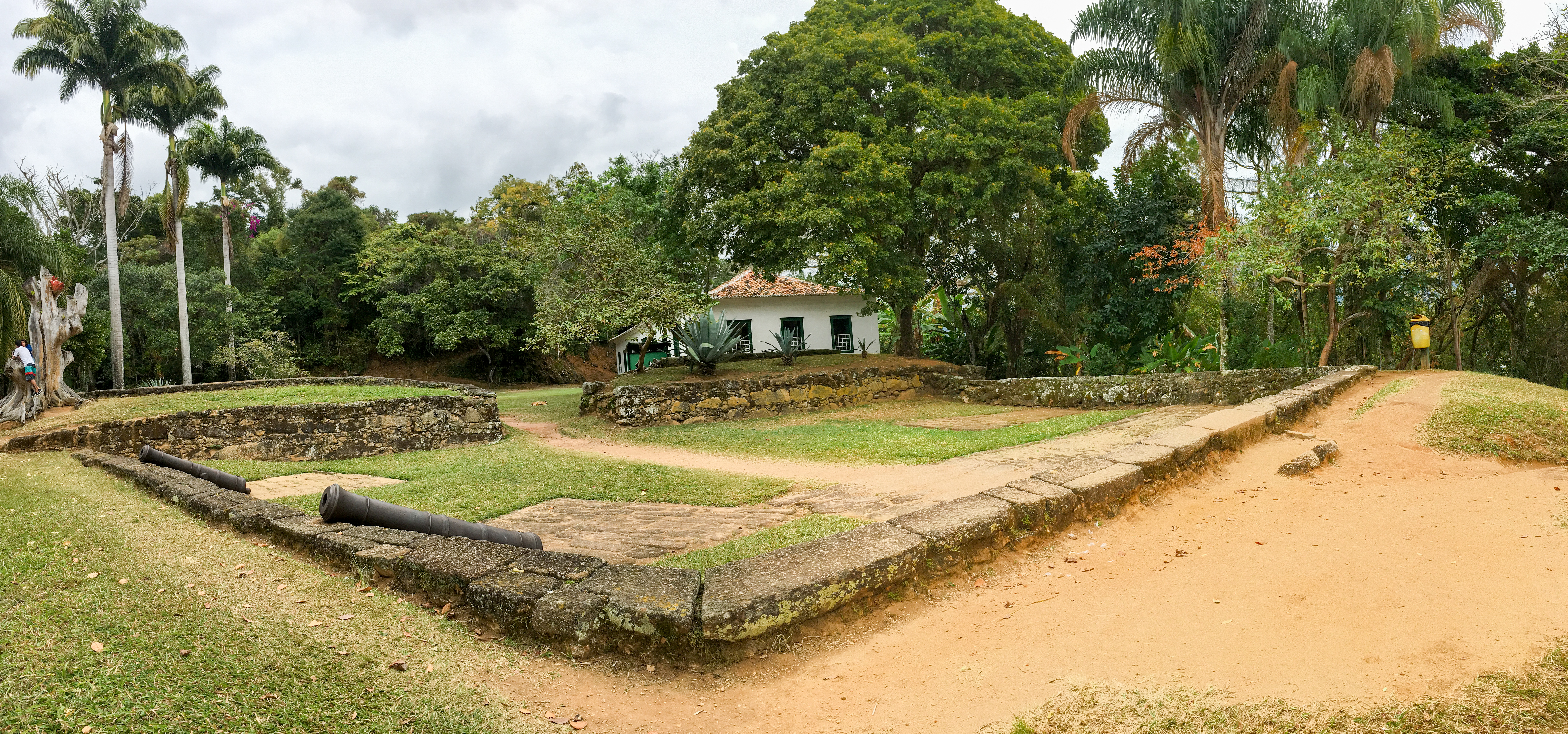 Museu Forte Defensor Perpétuo, Paraty, Brasil